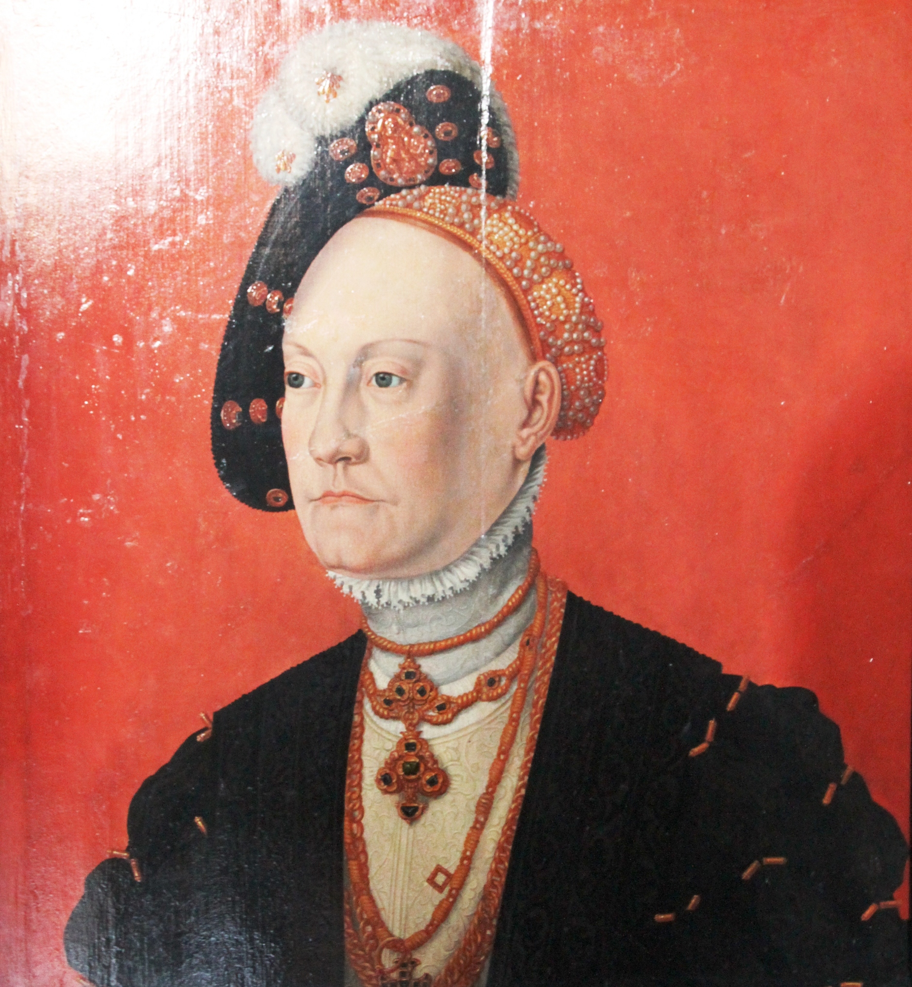 Painting by an unknown artist, of queen Dorothea of Denmark (1511-1571). Displayed in Frederiksborg Castle, Denmark.